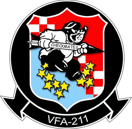 Insignia of the U.S. Navy Strike Fighter Squadron 211 (VFA-211) "Fighting Checkmates".